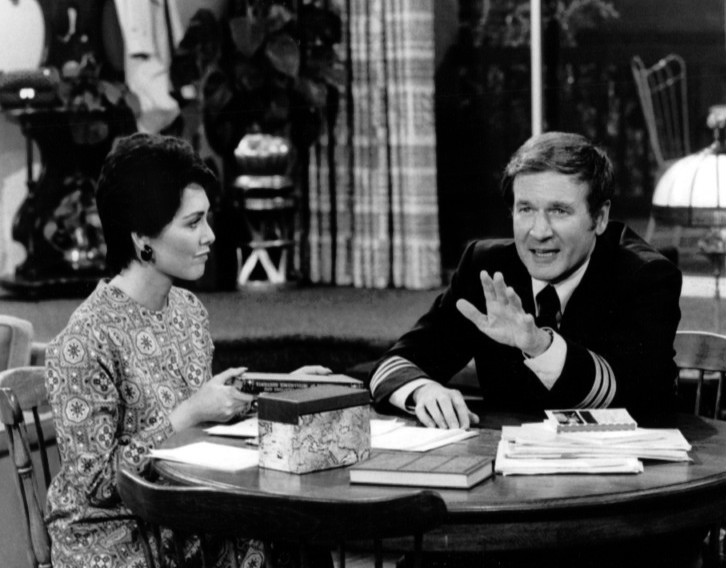 Photo from the television program The Bob Newhart Show. Emily (Suzanne Pleshette) listens to Howard (Bill Daily).